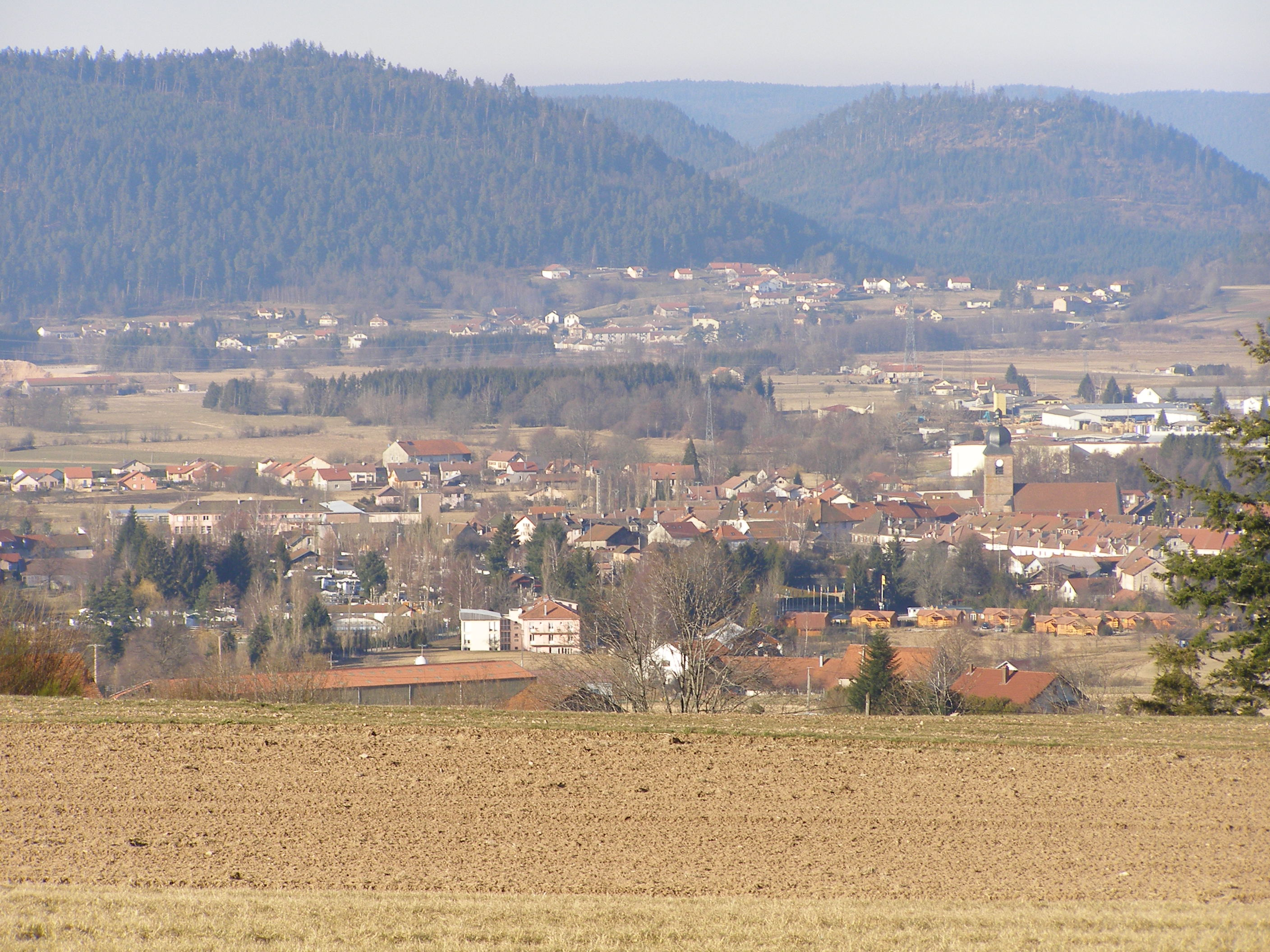 Corcieux.